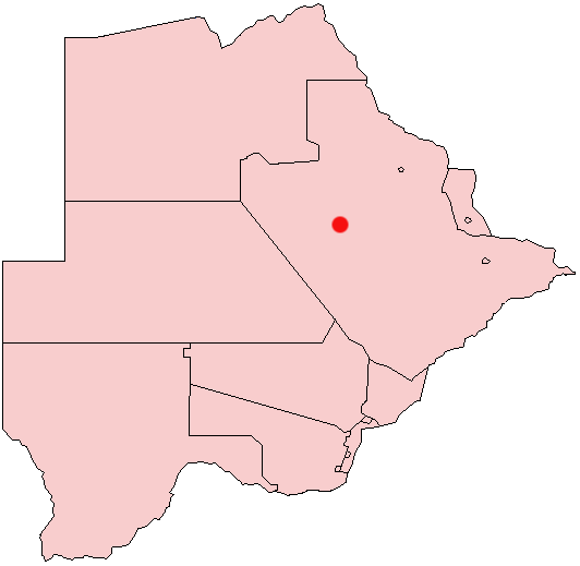 Orapa, Botswana Location Map; created with the GIMP. Made by User:Acntx.